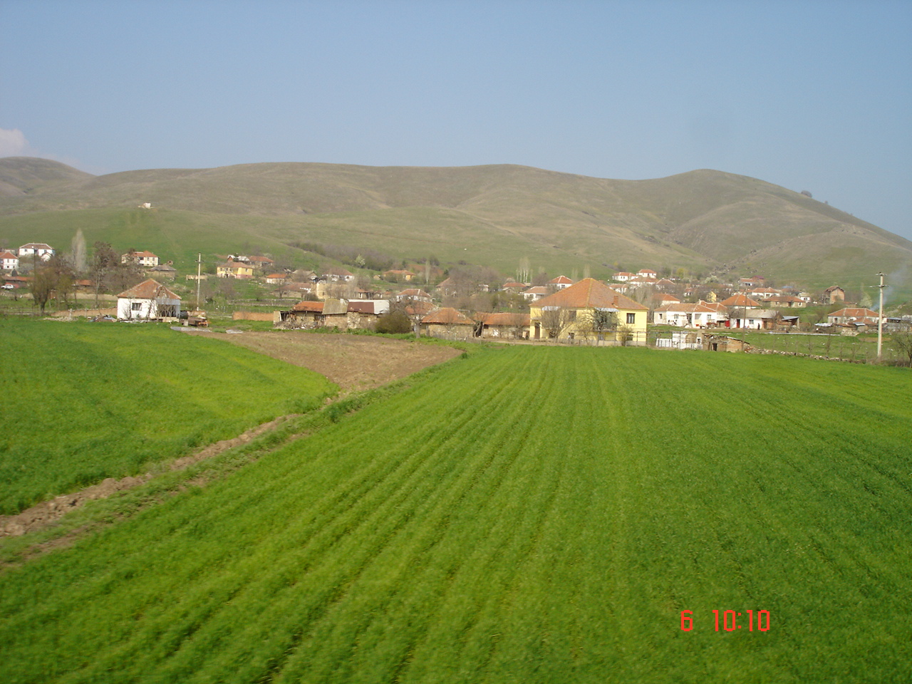 View of the village of Loznani, near Bitola, Macedonia